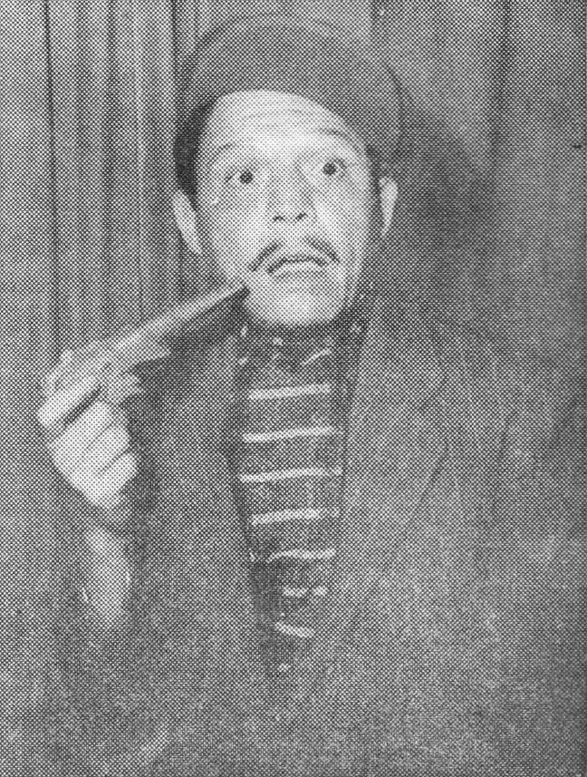 Indonesian actor S. Waldy